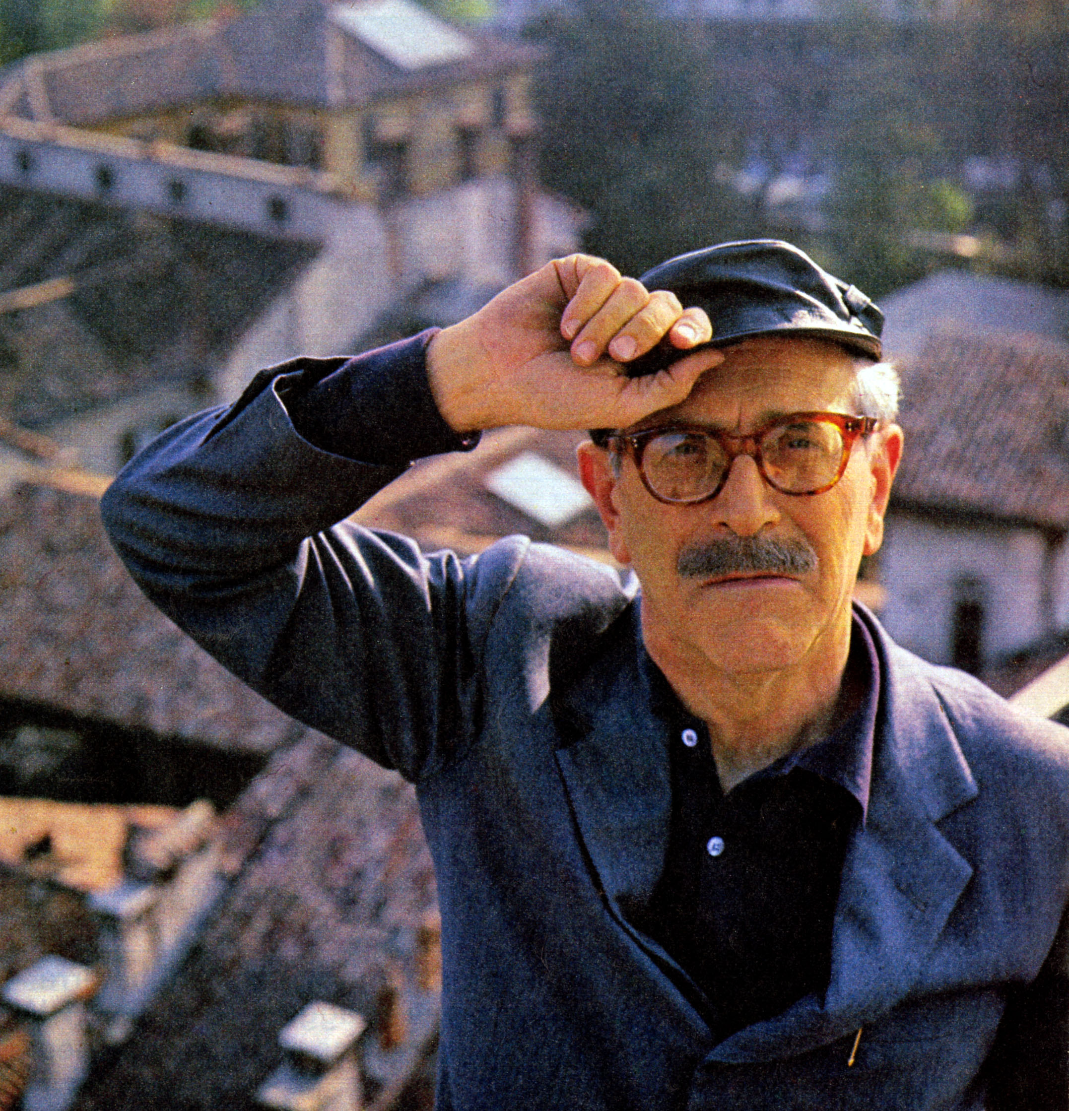 photo from the magazine Radiocorriere (1967)